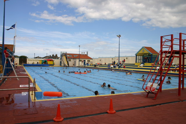 Stonehaven Open Air Sea-water Swimming Pool. Stonehaven is famous is its swimming pool, the only art deco, olympic sized, fully filtrated sea water, open air swimming pool in the UK.